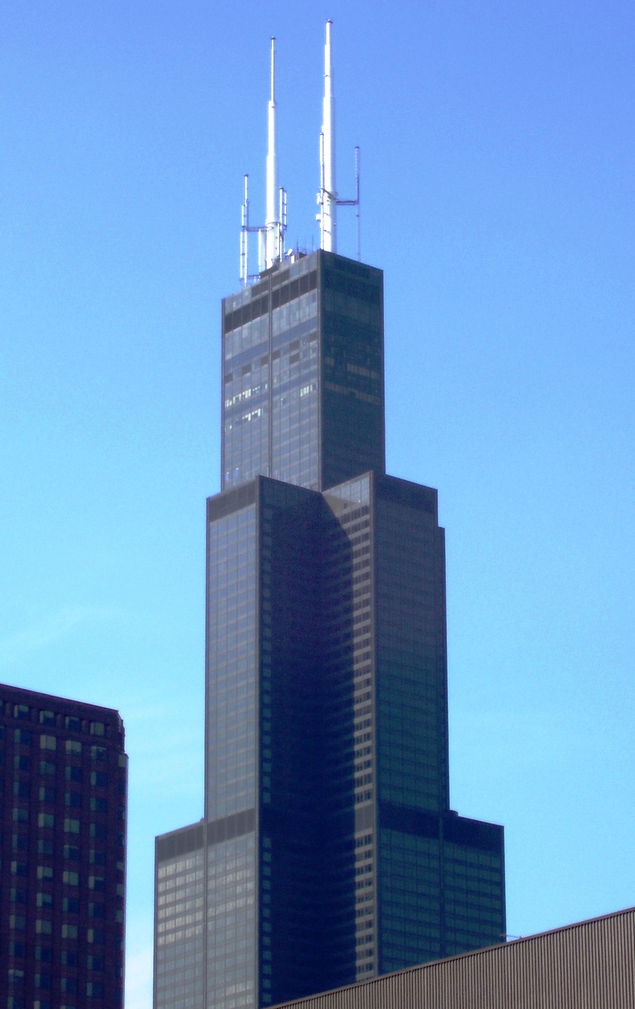 The Willis (Sears) Tower as seen from the South Loop.